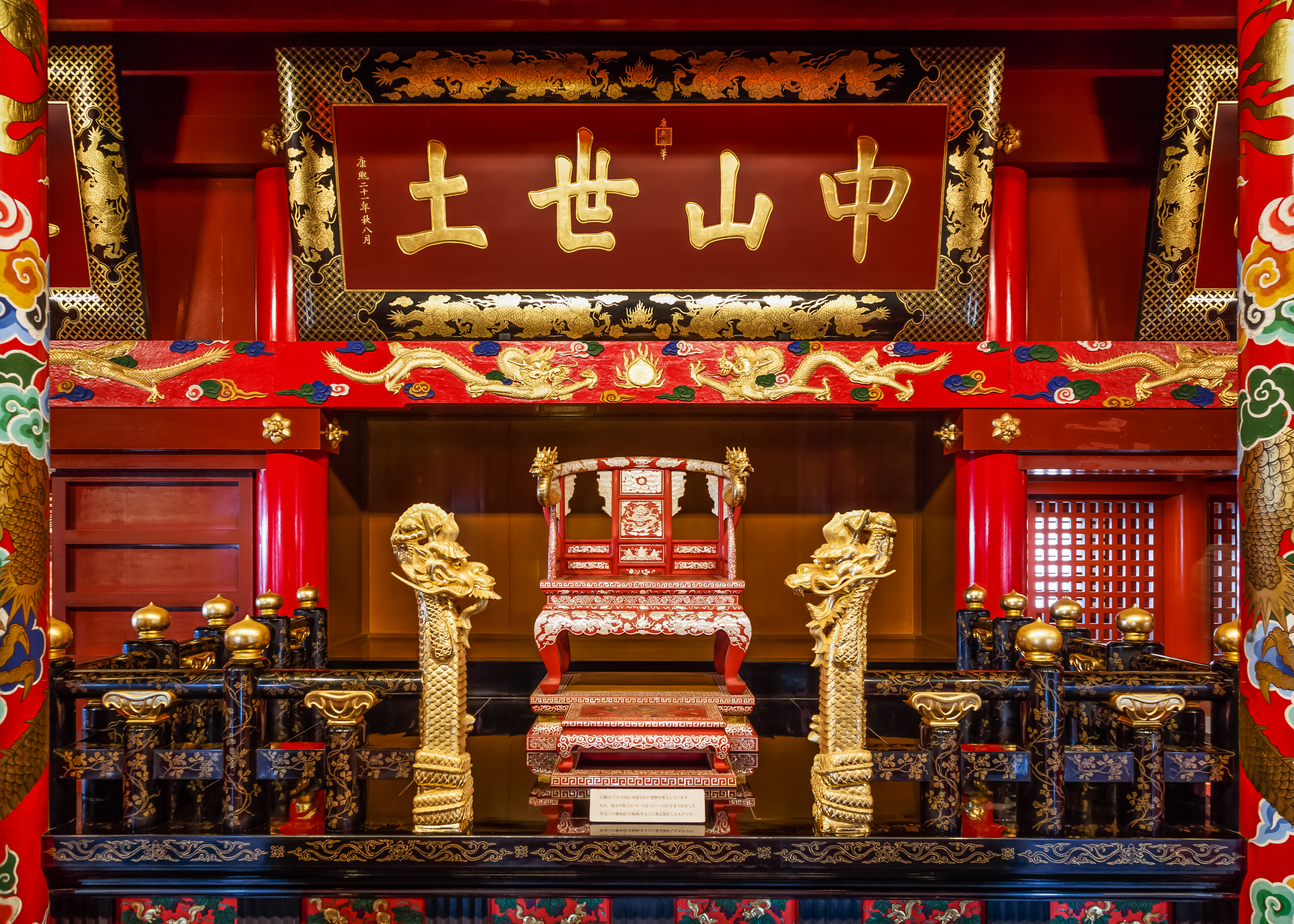 Naha, Okinawa, Japan: Throne in the Seiden (main hall) of Shuri Castle. The table above the throne bears the calligraphy of the Kangxi Emperor, and reads Chûzan seido, meaning roughly "this land has been ruled [benevolently] by Chûzan for generation after generation."